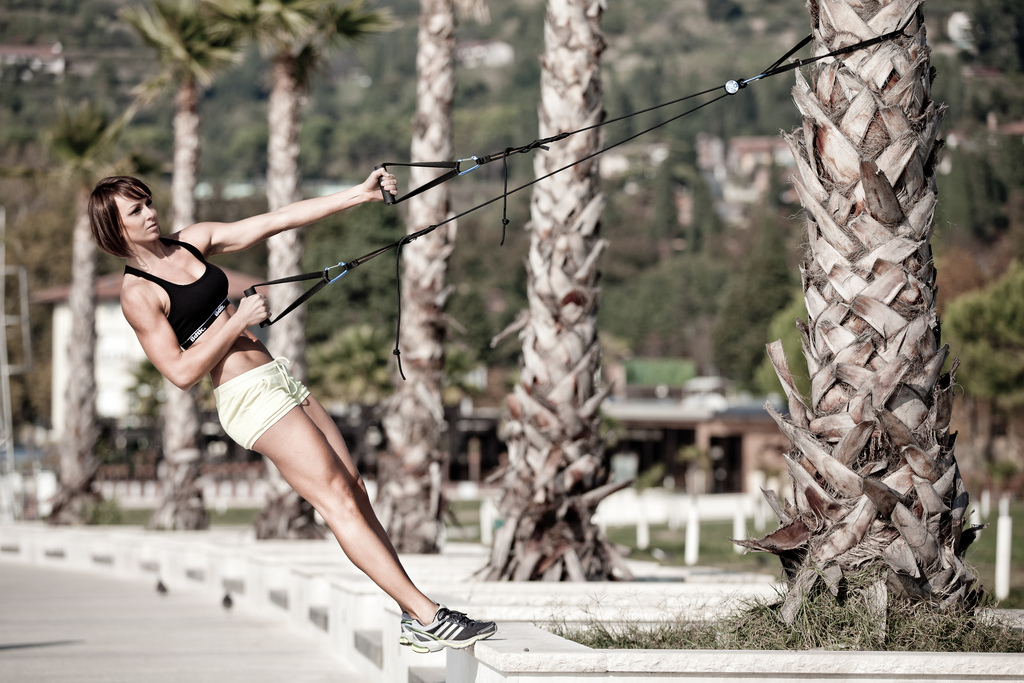 Sling Training in natur